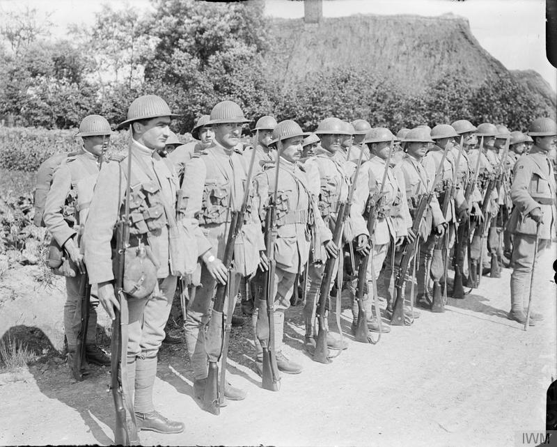 The Portuguese Expeditionary Corps on the Western Front, 1917-1918 Portuguese infantry at Locon, 24 June 1917.